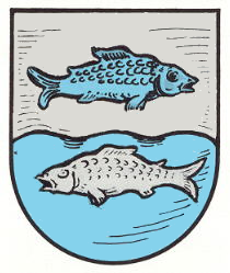 Coat of arms of Fischbach bei Dahn